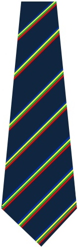 Blue Coat School Tie for First XI in 3 Sports